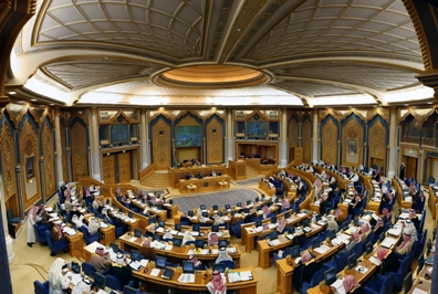 The main hall of the Council members